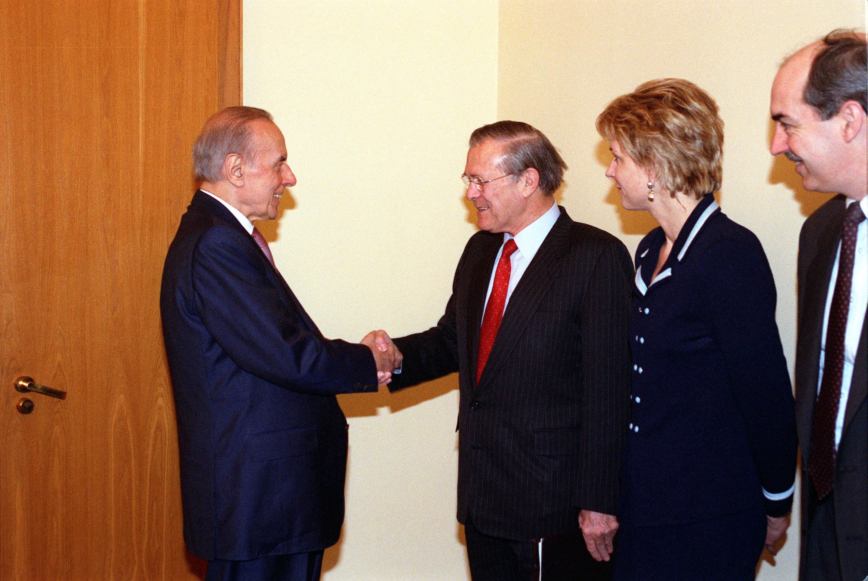 President Heydar Aliyev (left) greets Secretary of Defense Donald H. Rumsfeld at the Presidential Palace in Baku, Azerbaijan, on Dec. 15, 2001. Rumsfeld is meeting with leaders of the Caucasus region to establish military-to-military links with those countries. Accompanying Rumsfeld is Assistant Secretary of Defense, Public Affairs, Victoria Clarke and Assistant Secretary of Defense for International Security Policy J. D. Crouch.